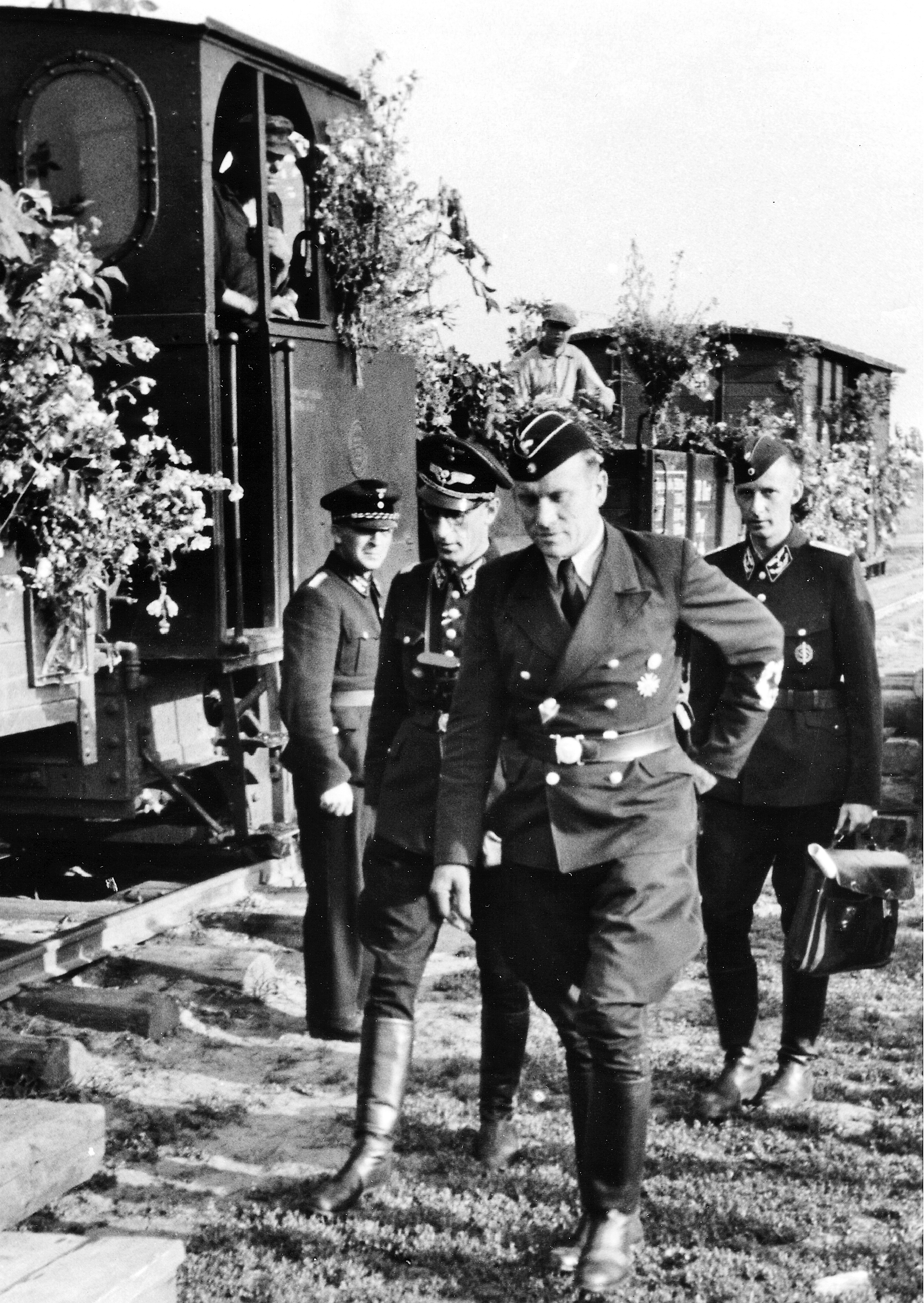 Albert Ganzenmüller (front) visited a track construction site at Cherson in the Crimea in July 1943 in a decorated railway train. There, nearby the town of Aleshki (Russian: Алешки, 1928 renamed to Tsiurupynsk), the largest railway war bridge of the second world war is created in 1943. It is built by German railway pioneers.